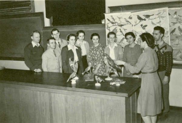 Caption: 1947. Goshen, Indiana. Audubon Club at Goshen College. Dr. Alta Schrock, sponsor. Citation: Mennonite Community Photograph Collection, 1947-1953. Goshen College. HM4-134 Box 2 Photo 305-17. Mennonite Church USA Archives - Goshen. Goshen, Indiana.